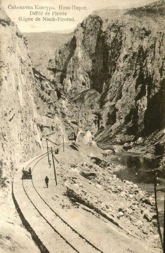 Construction of the railway Nis-Sofia through the canyon Nišava 1886/97.